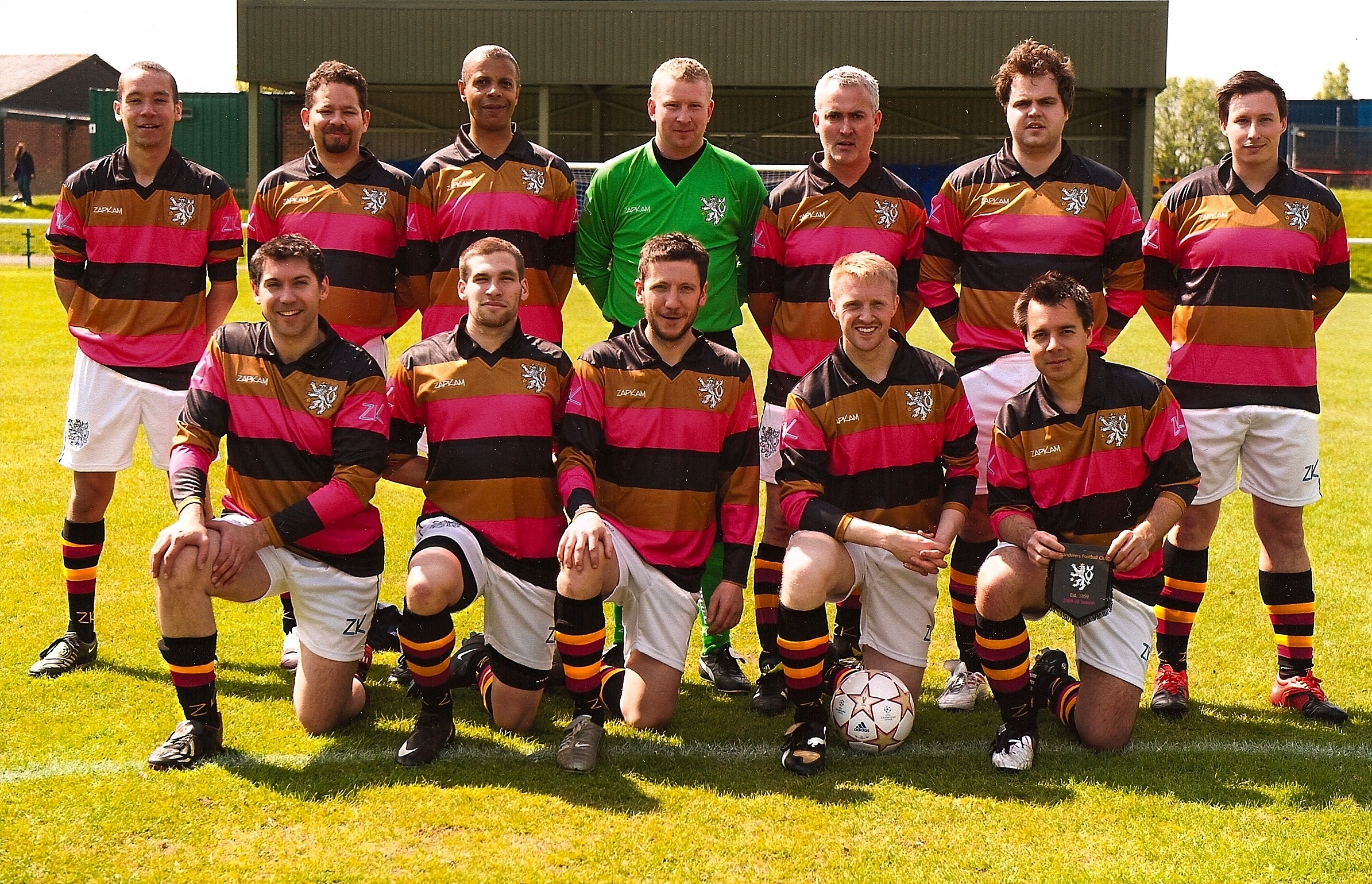 A photograph of the Wanderers team that took to the field against Royal Engineers (15th May 2010)